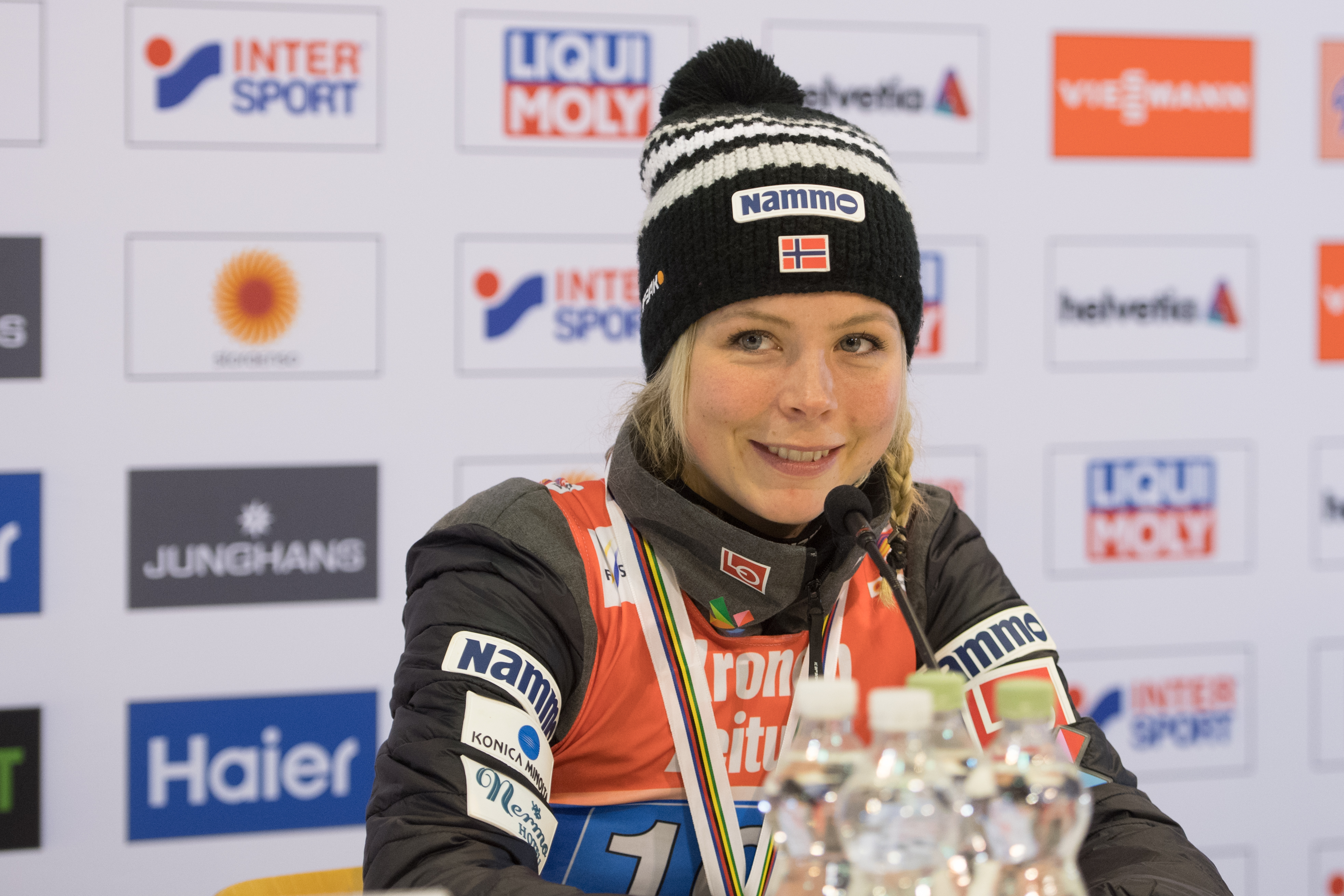 Seefeld, February 26, 2019: FIS Nordic World Ski Championships, Ski Jumping Ladies Normal Hill Team, Winner's Press Conference.